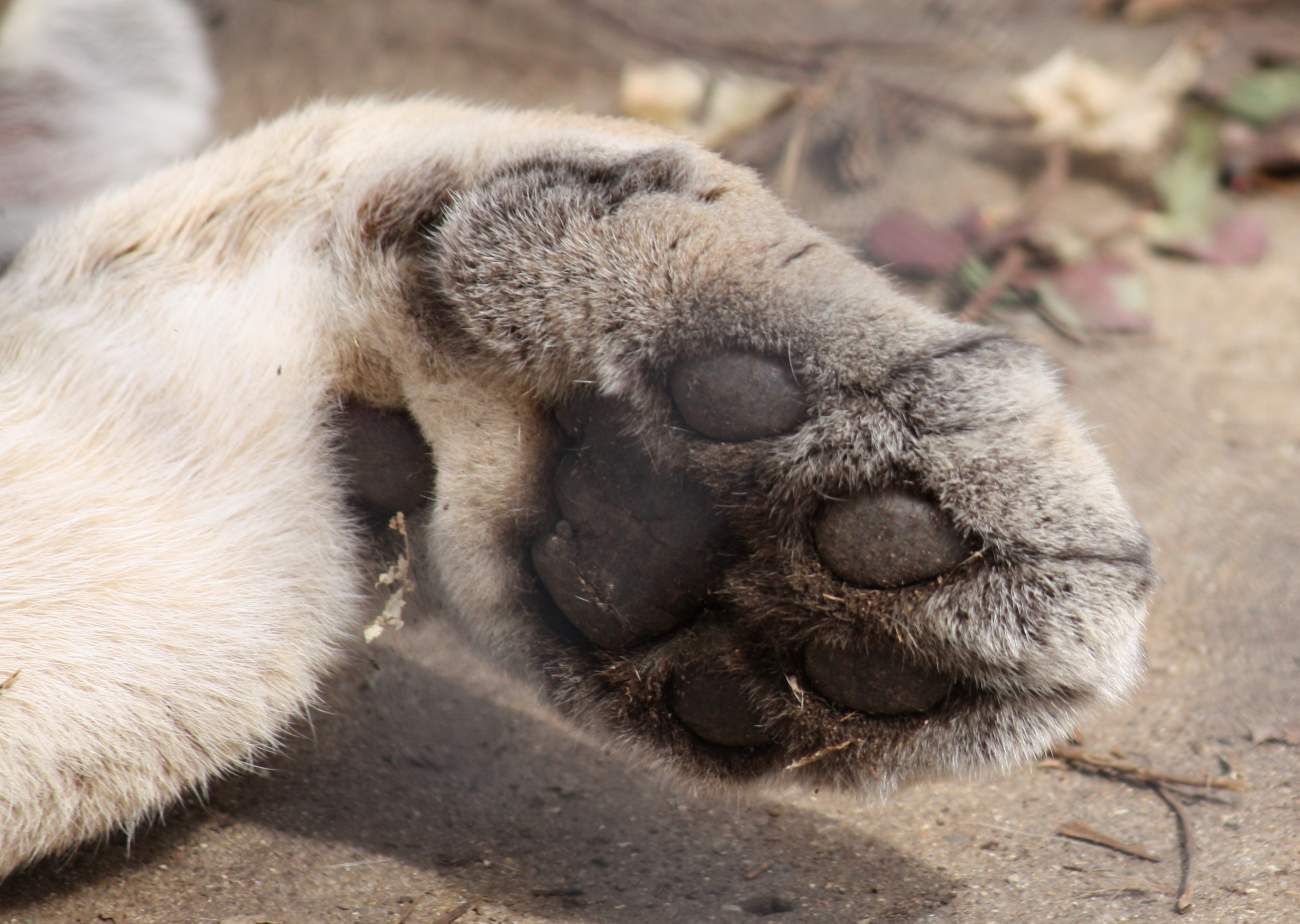 Puma Paw